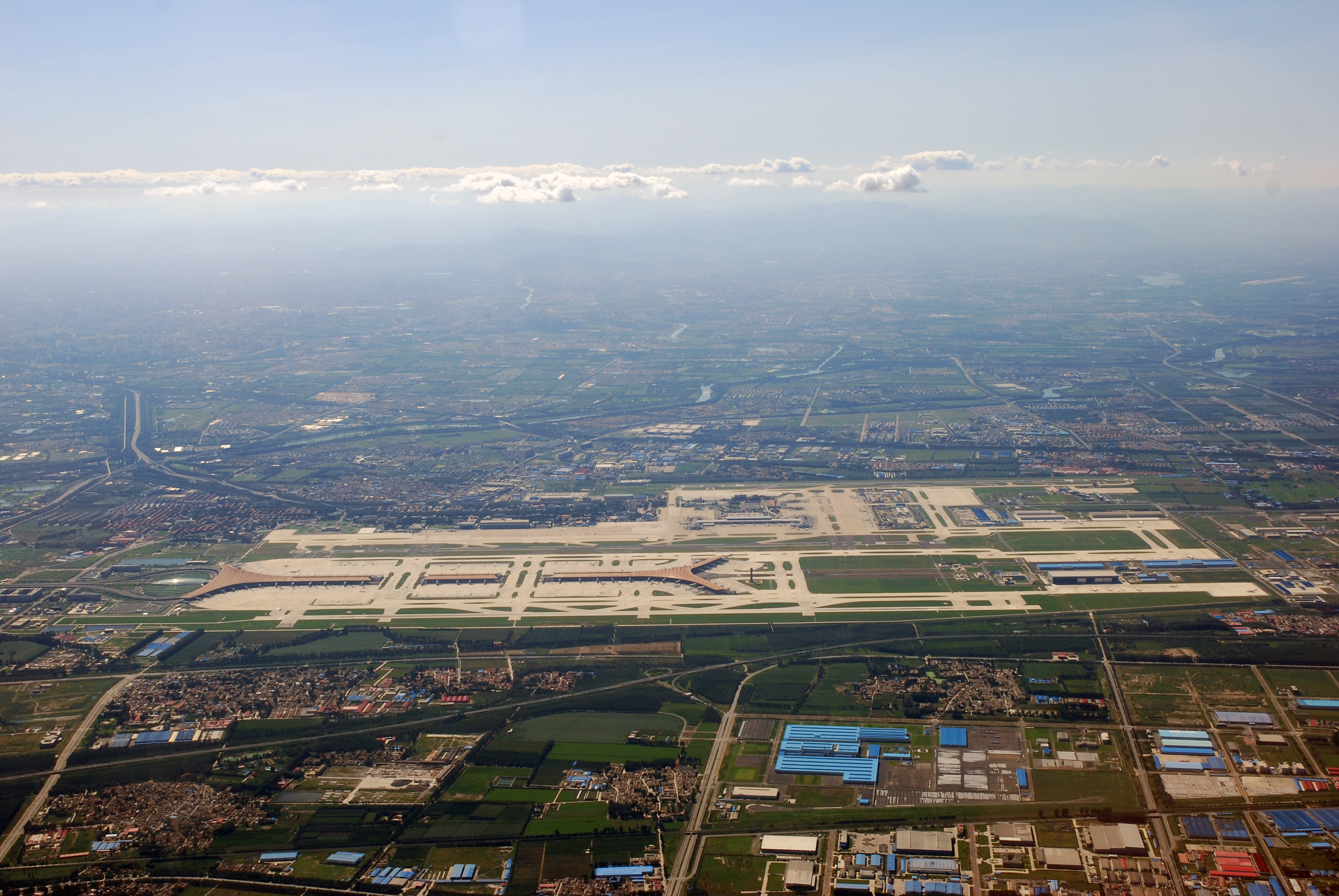 downwind to land,Sept 2008